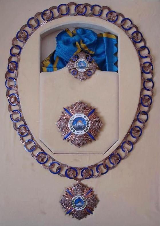 Grand Cordon with Collar set of the Imperial Order of Pahlavi